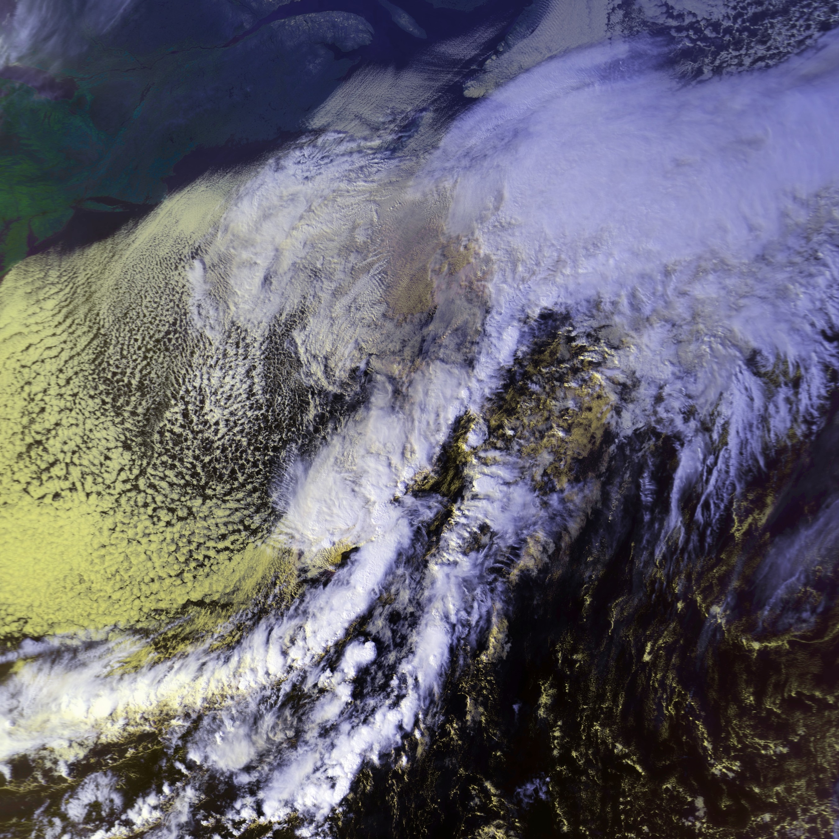 This image shows the remnants of Hurricane Grace (lower left) being absorbed by an extratropical low October 29 at 1800 UTC. This image was produced from data from NOAA-11, provided by NOAA.